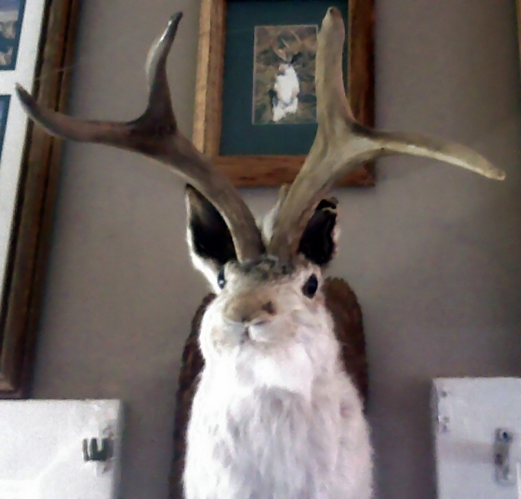 A jackalope on the wall of a restaurant near the west entrance to death valley.